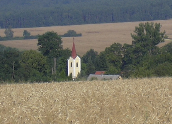 Velečín village and church tower in the Czech Republic